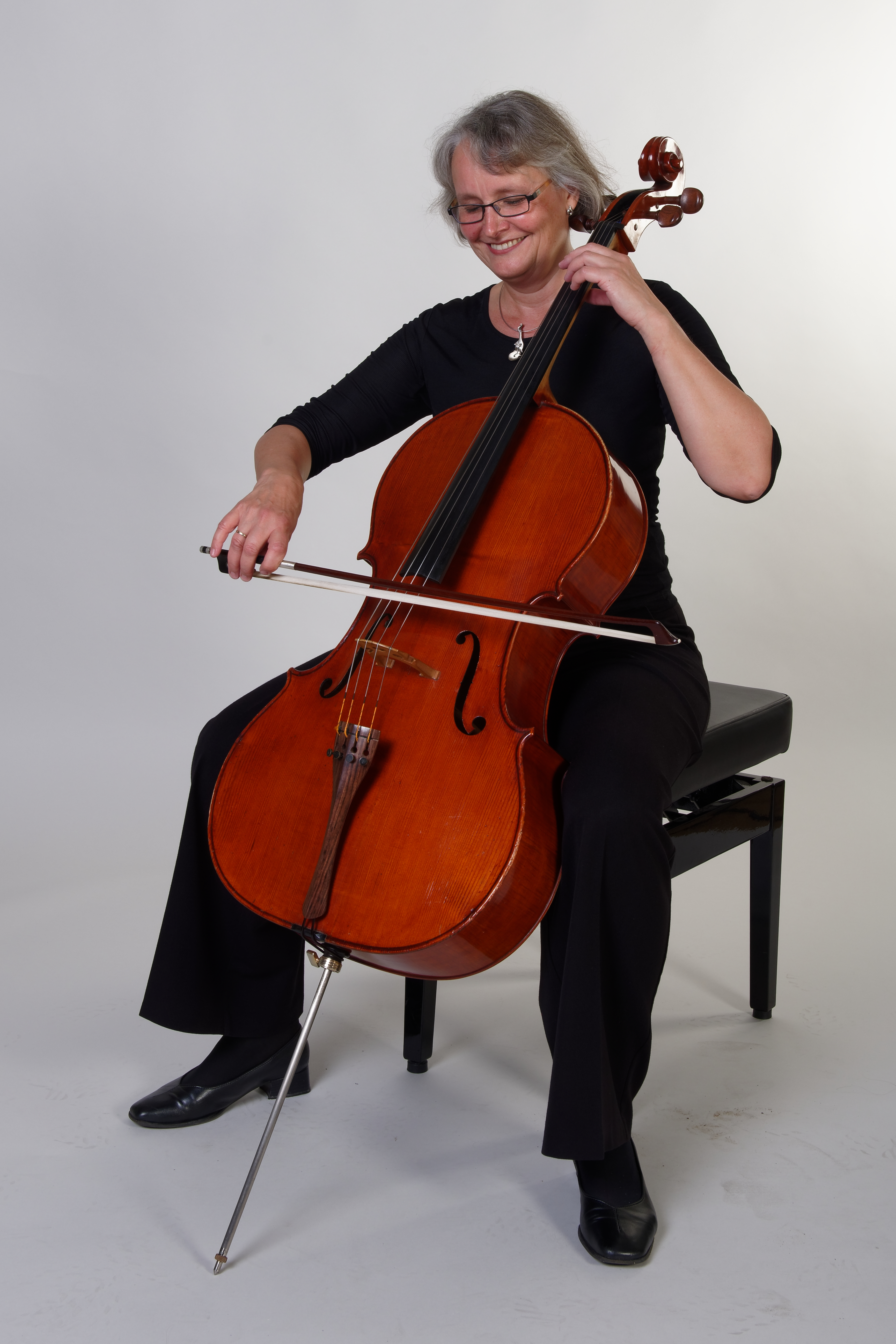 Personality rights warningAlthough this work is freely licensed or in the public domain, the person(s) shown may have rights that legally restrict certain re-uses unless those depicted consent to such uses. In these cases, a model release or other evidence of consent could protect you from infringement claims.